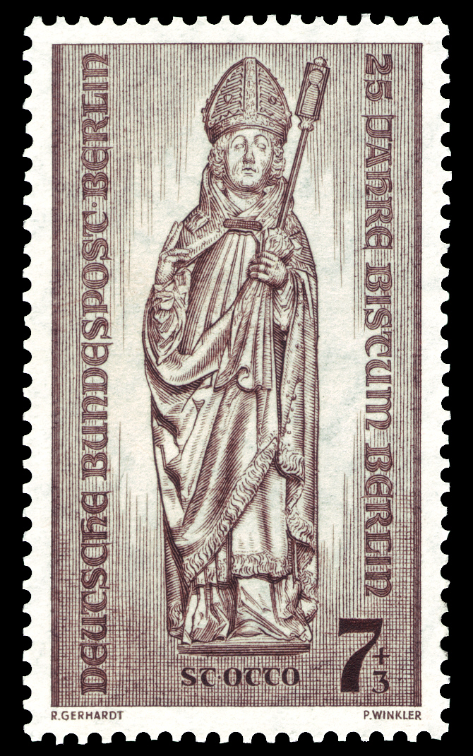 25 years of diocese Berlin, stamp with additional fee for restoring the destroyed churches Graphics by Gerhardt Ausgabepreis: 7+3 Pfennig First Day of Issue / Erstausgabetag: 26. November 1955 Michel-Katalog-Nr: 132 (Berlin)